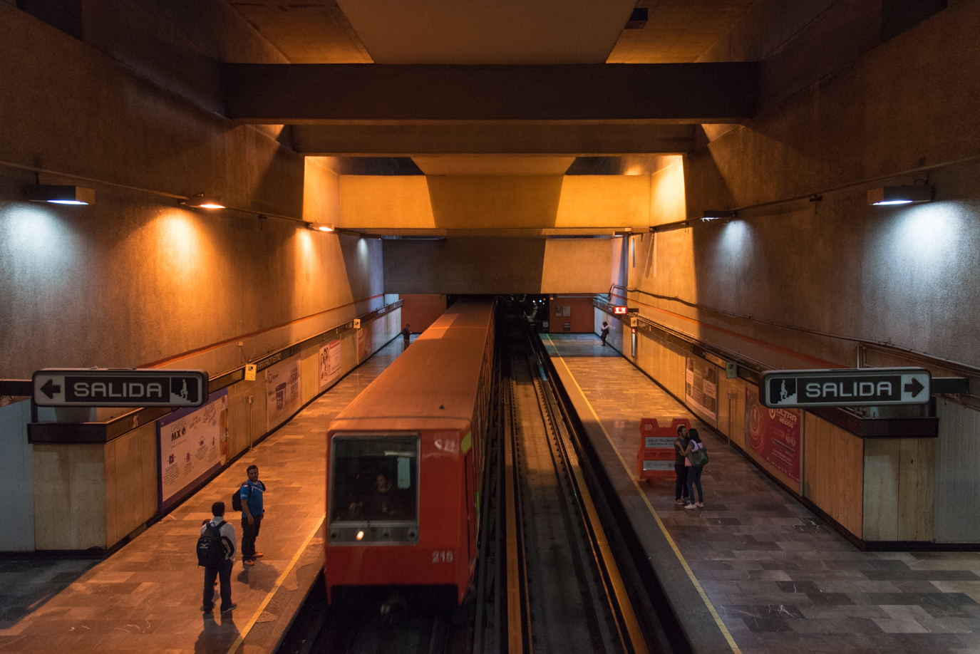 Patriotismo station of Mexico City Metro